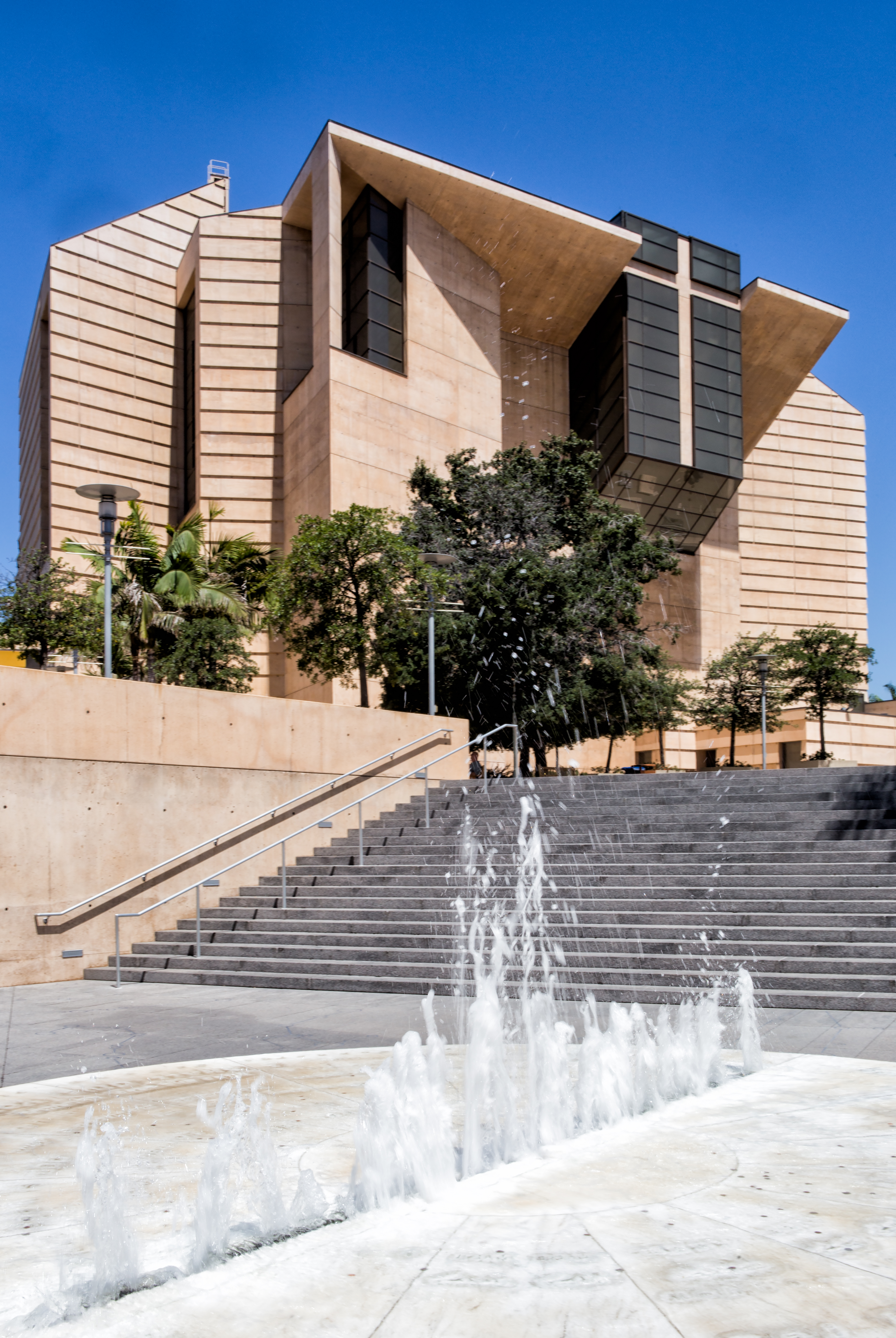 Cathedral of Our Lady of the Angels